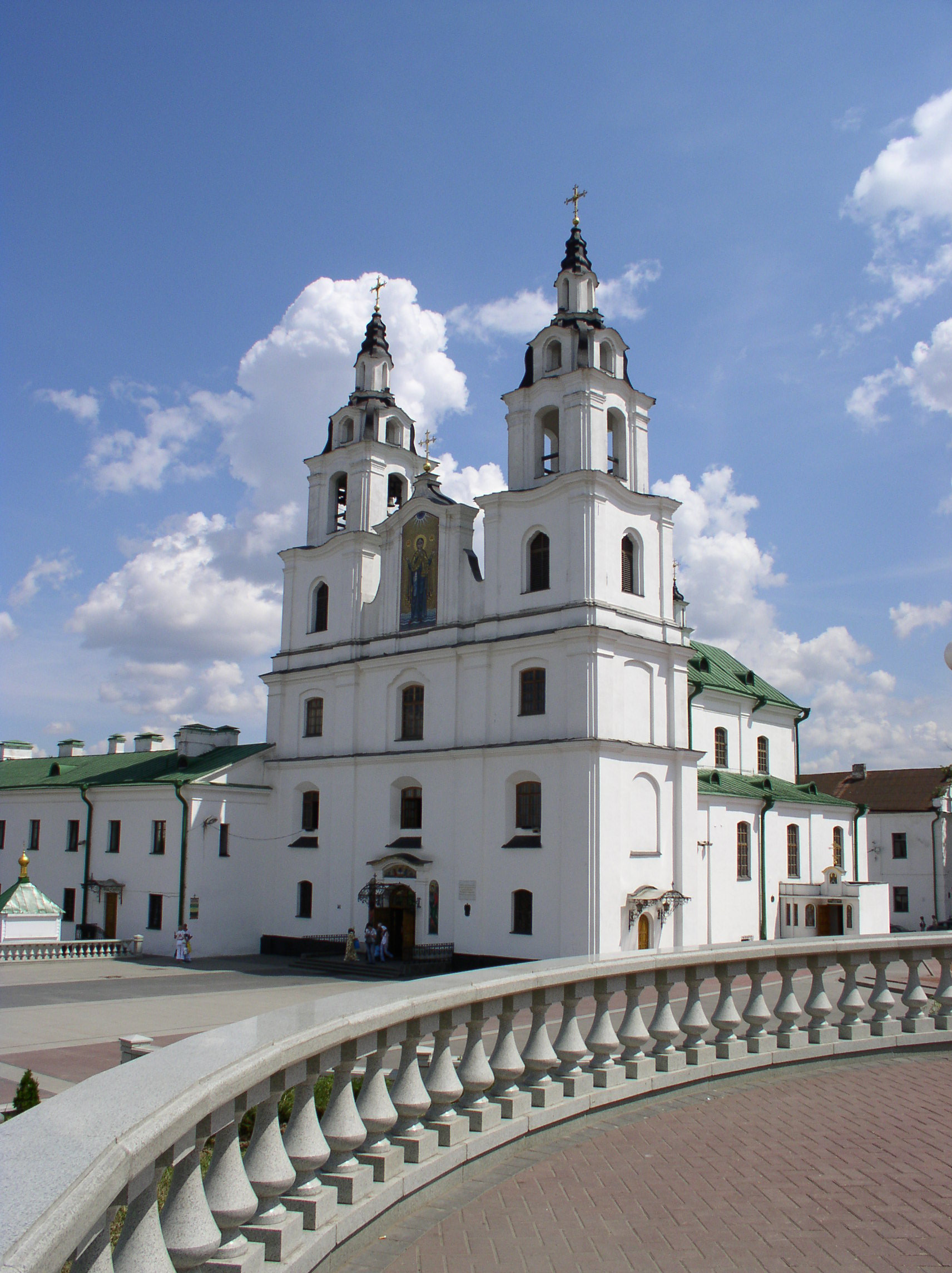 Cathedral of Holy Spirit, Minsk, Belarus.